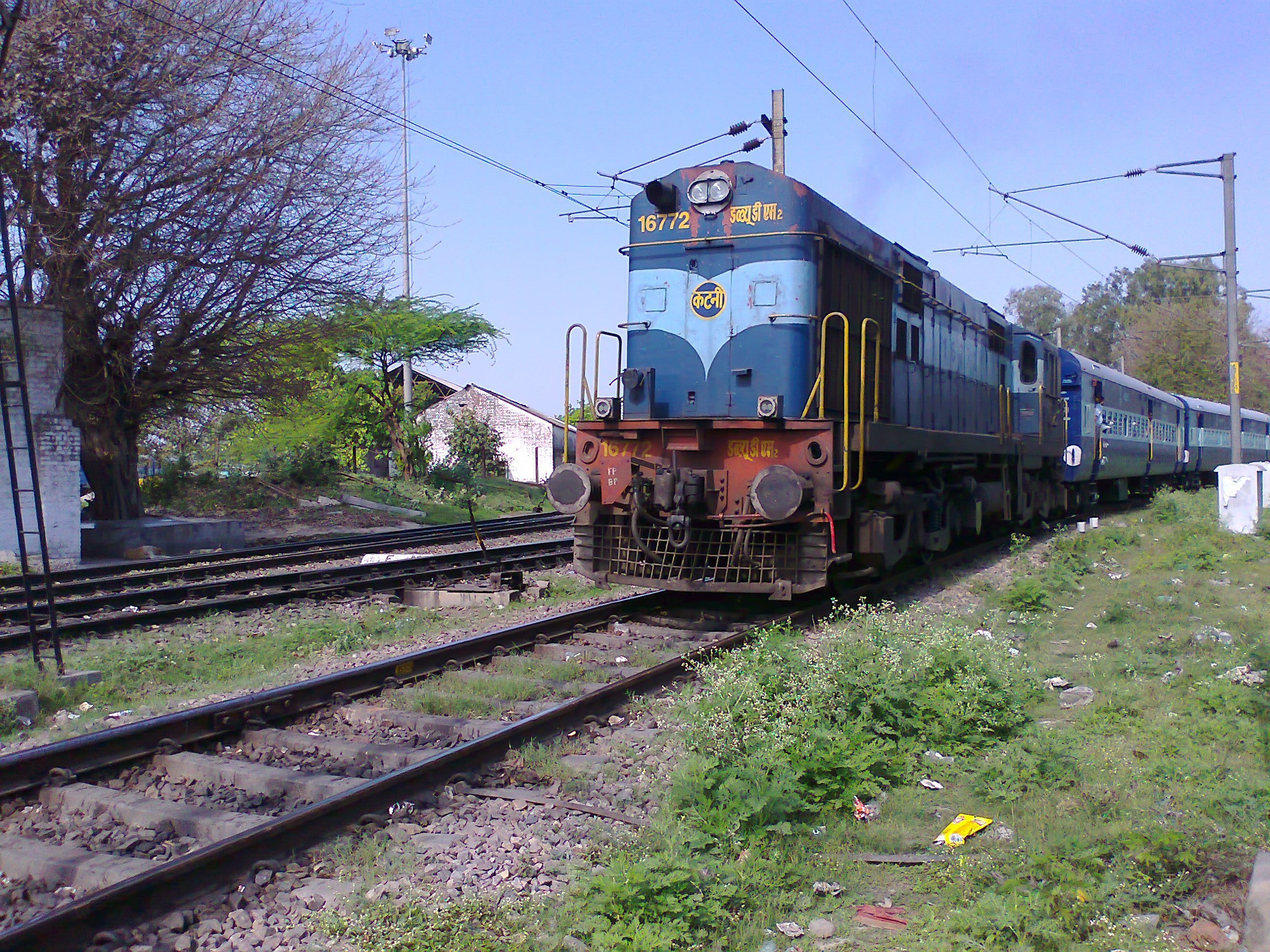 WDM2 16772 of Katni with Lucknow bound Chitrakoot Express